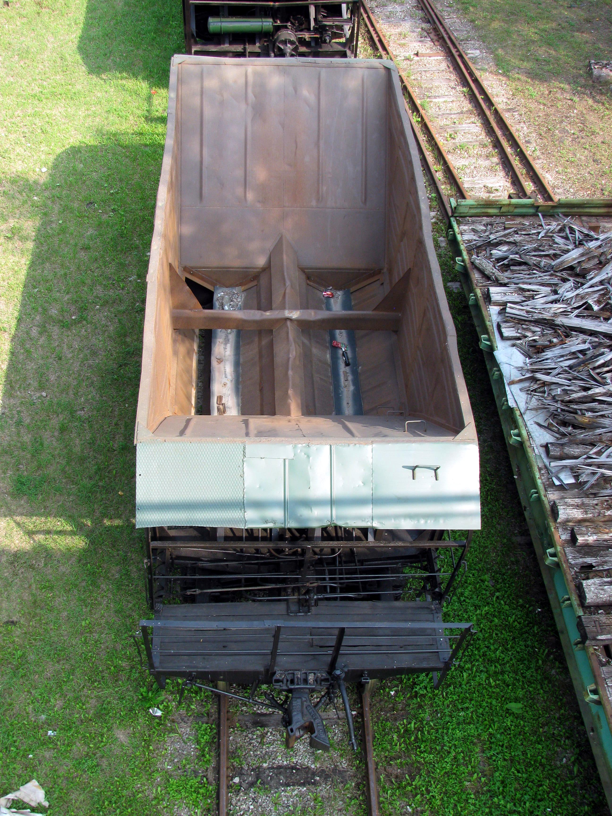 Estonian hopper wagon at Valga railway station